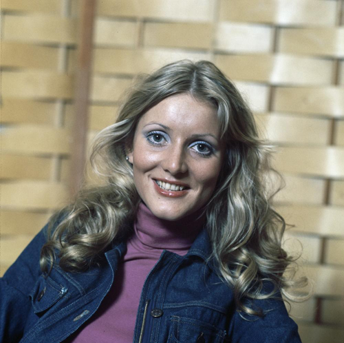 Portrait of Anne-Karine Strøm at the day of the Eurovision Song Contest 1976